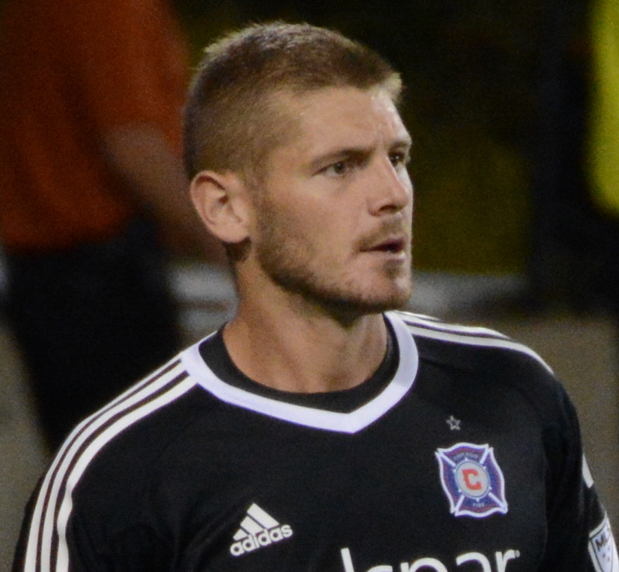 Taken at a U.S. Open Cup match between FC Cincinnati and Chicago Fire SC at Nippert Stadium in Cincinnati, Ohio on June 28, 2017.